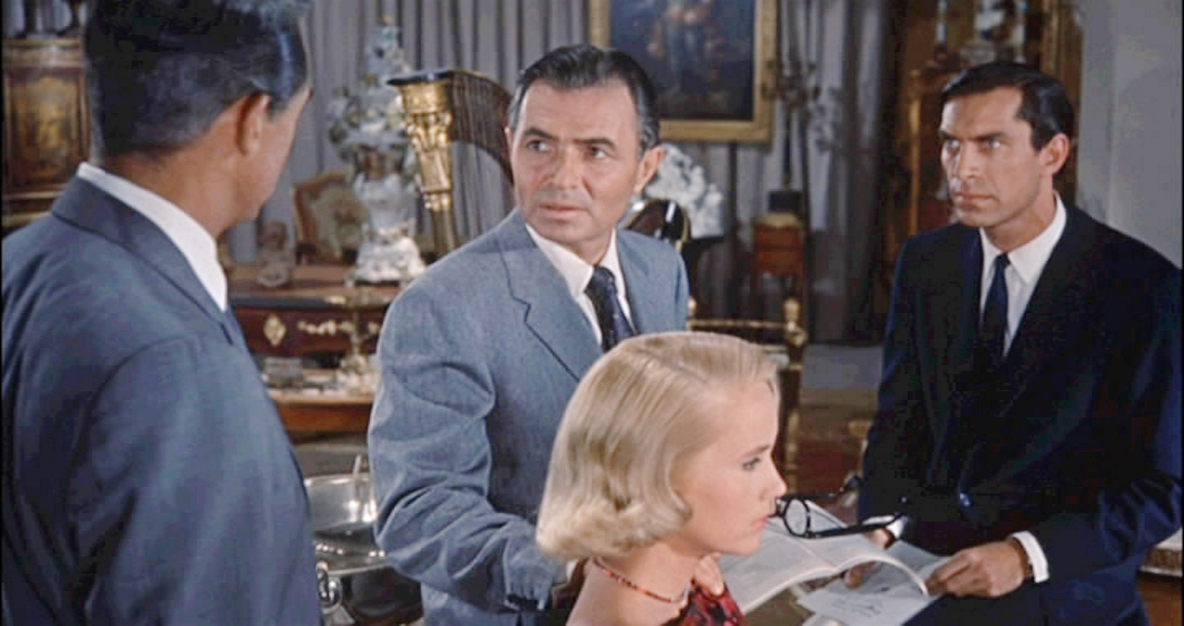 Cropped screenshot of Cary Grant, James Mason, Eva Marie Saint and Martin Landau from the trailer for the film North by Northwest